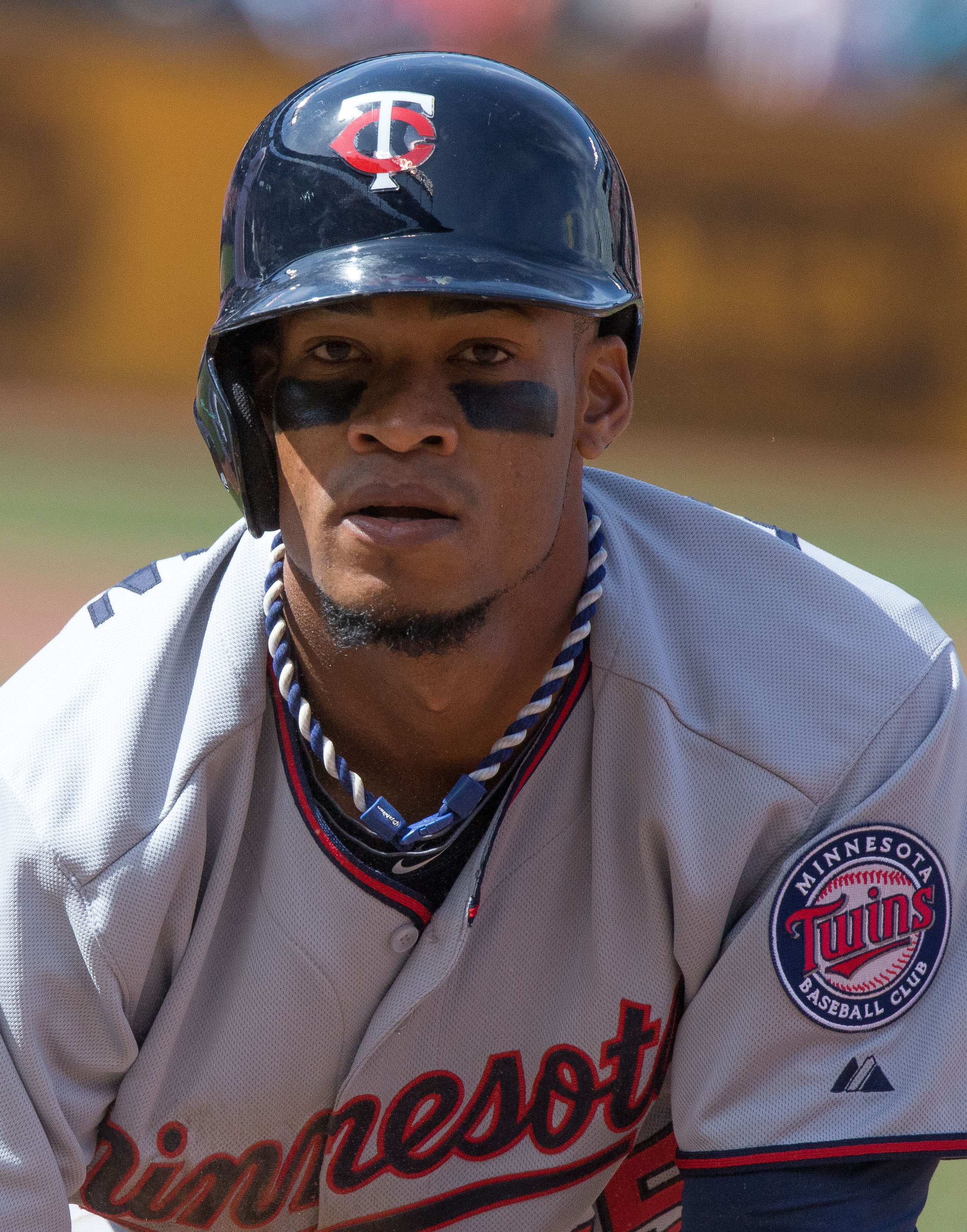 Minnesota Twins at Baltimore Orioles April 7, 2013